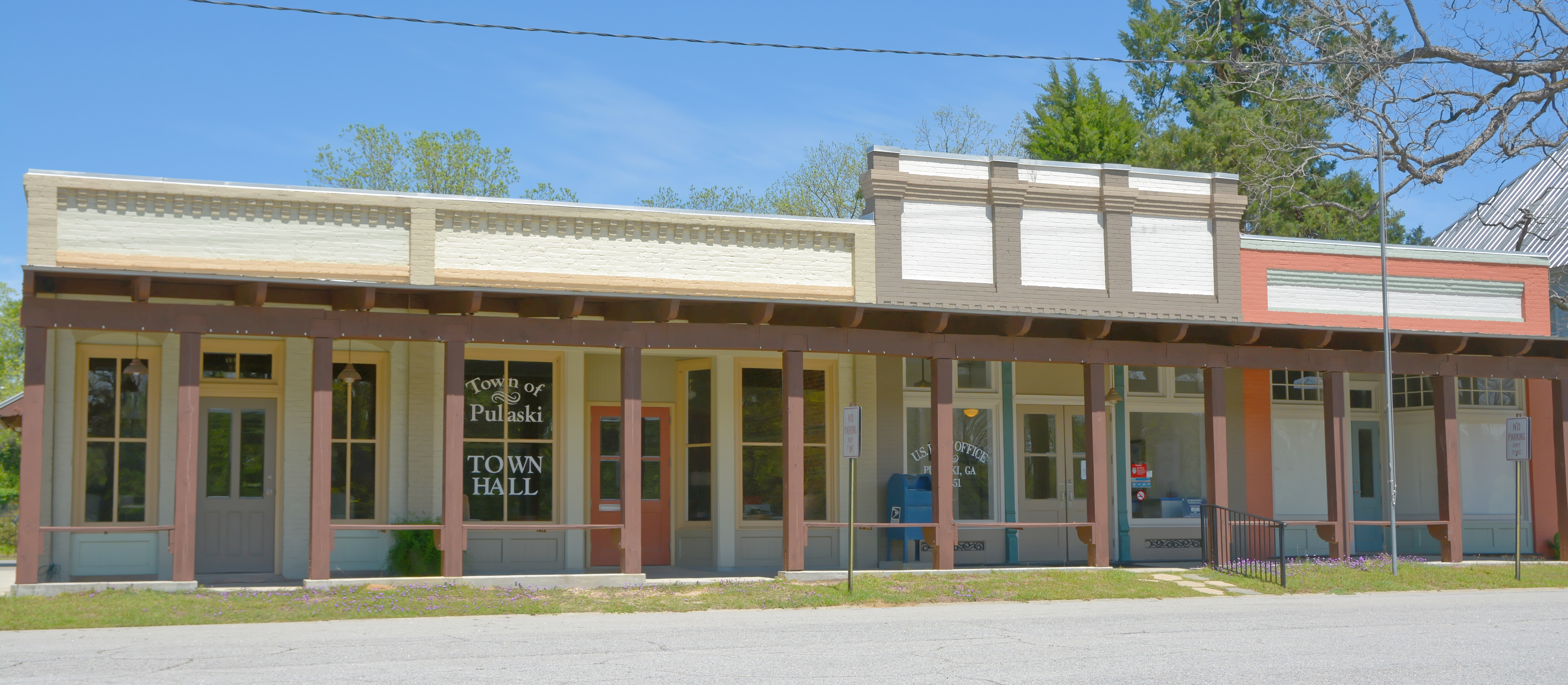 Pulaski, Georgia, U.S. City Hall